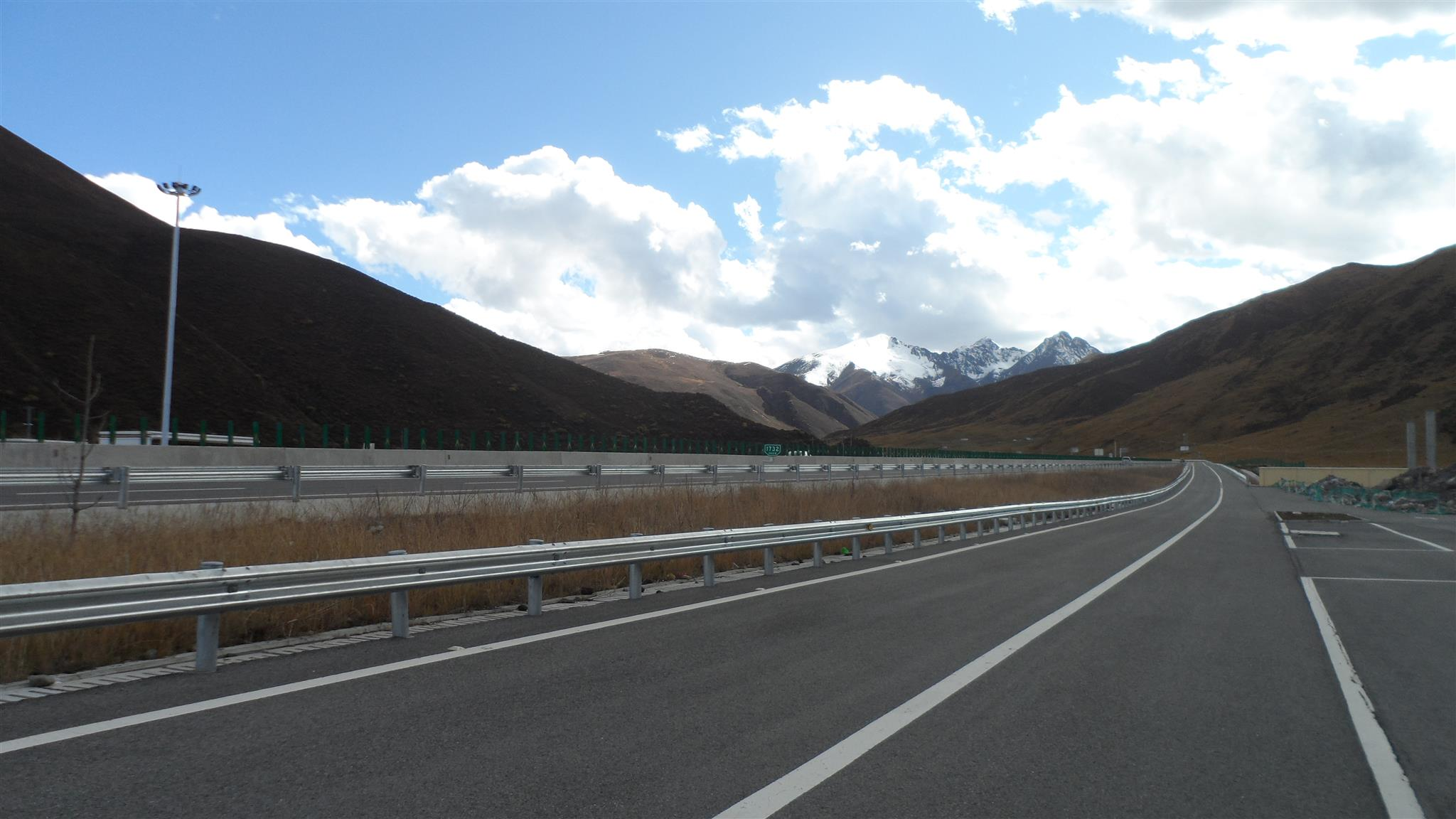 Express Highways in Tibet